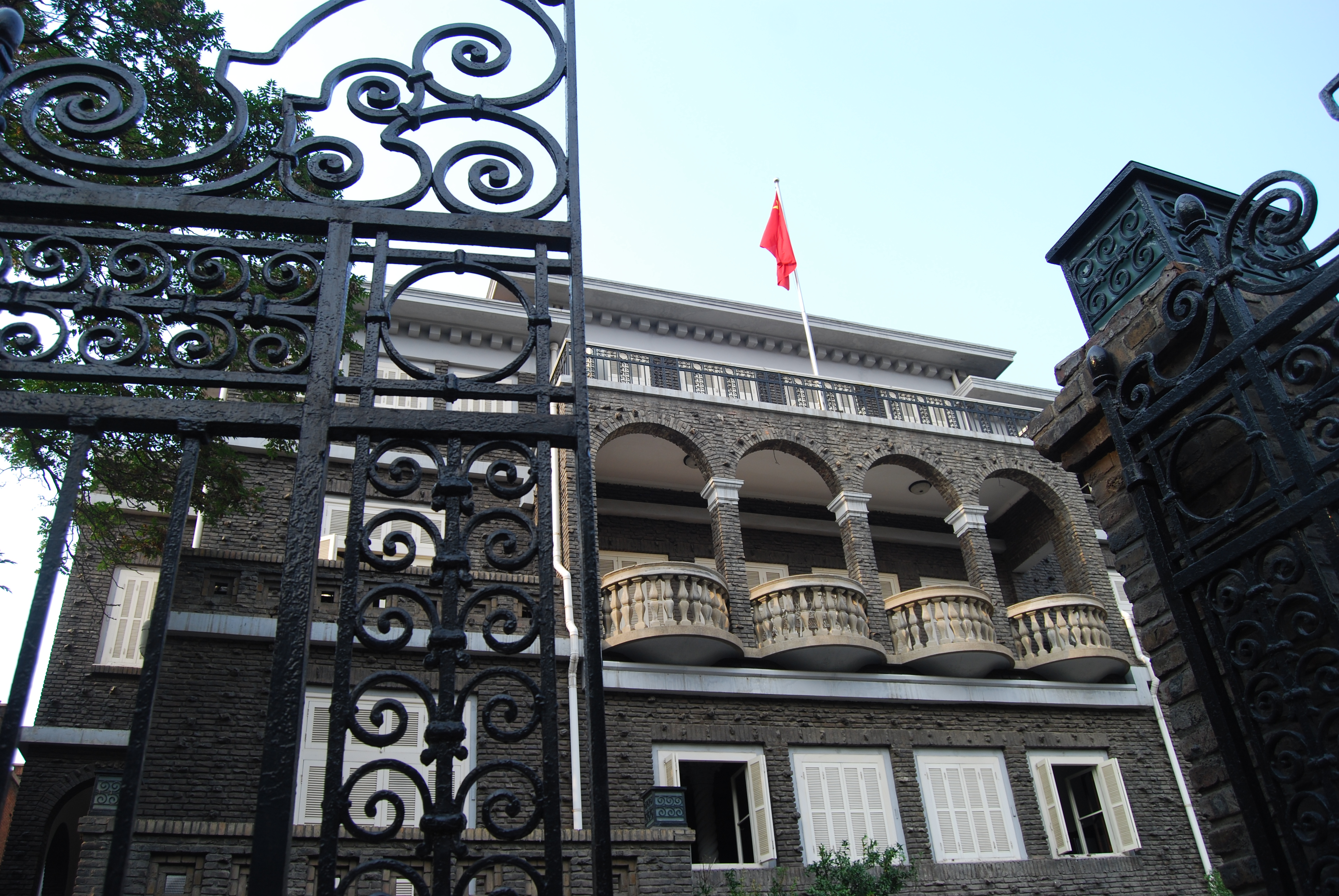 The Former Residence of Yan Huiqing (1877–1950, writer, politician, and diplomat) in Munan Dao No. 24–26, Heping District, Tianjin